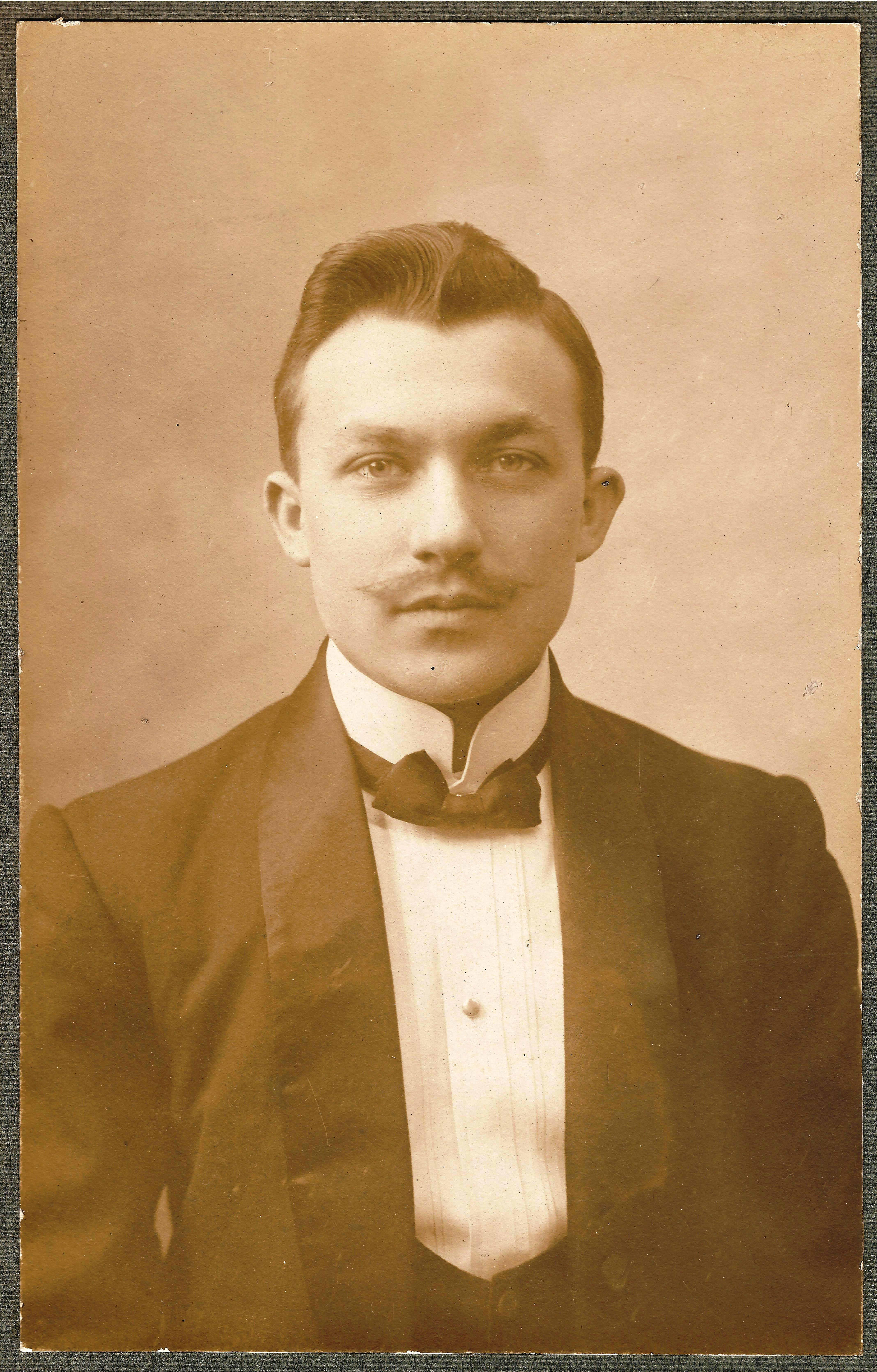 This is musician and composer Adalgiso Ferraris in Petersburg, Russia 1912 second picture